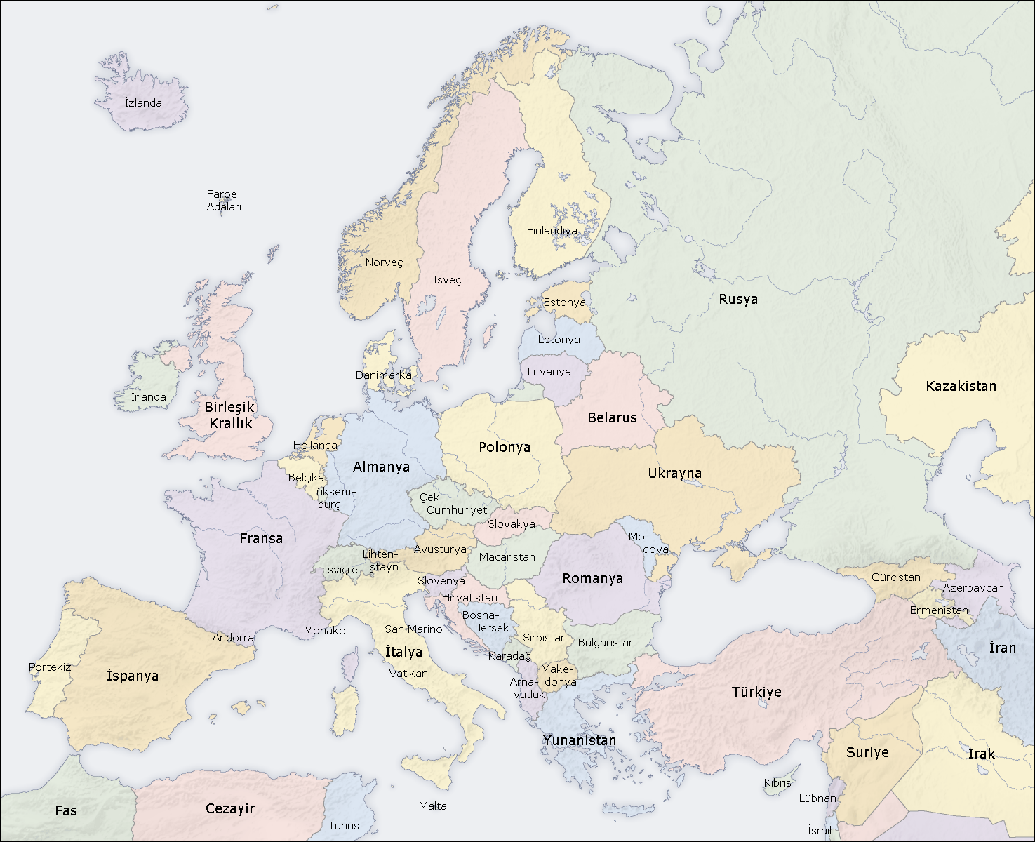 Map of countries in Europe